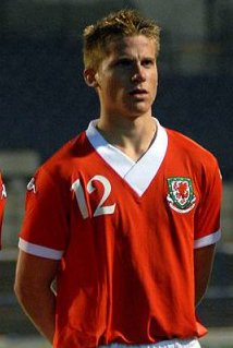 Aaron Ramsey lines up for Wales U21s alongside Christian Ribeiro (right) and Ched Evans (left)